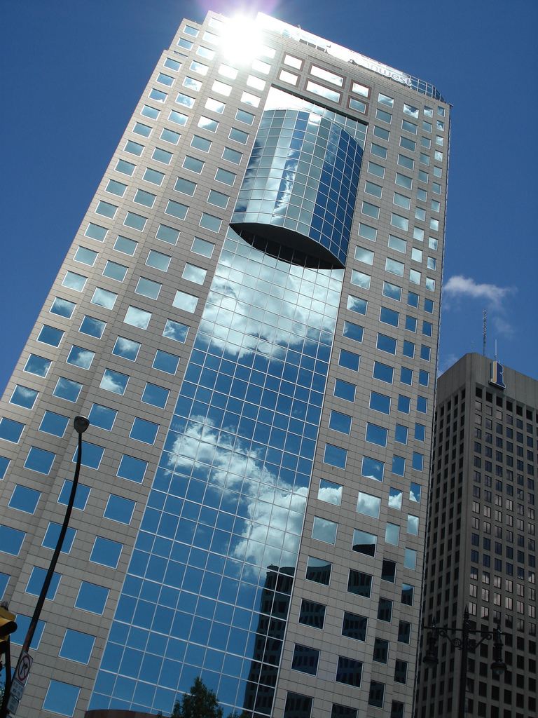 A photo of Canwest Place, the tallest building in Winnipeg at 128 m. The south face of the building is shown. In the background is the Richardson Building, standing at 124 m.